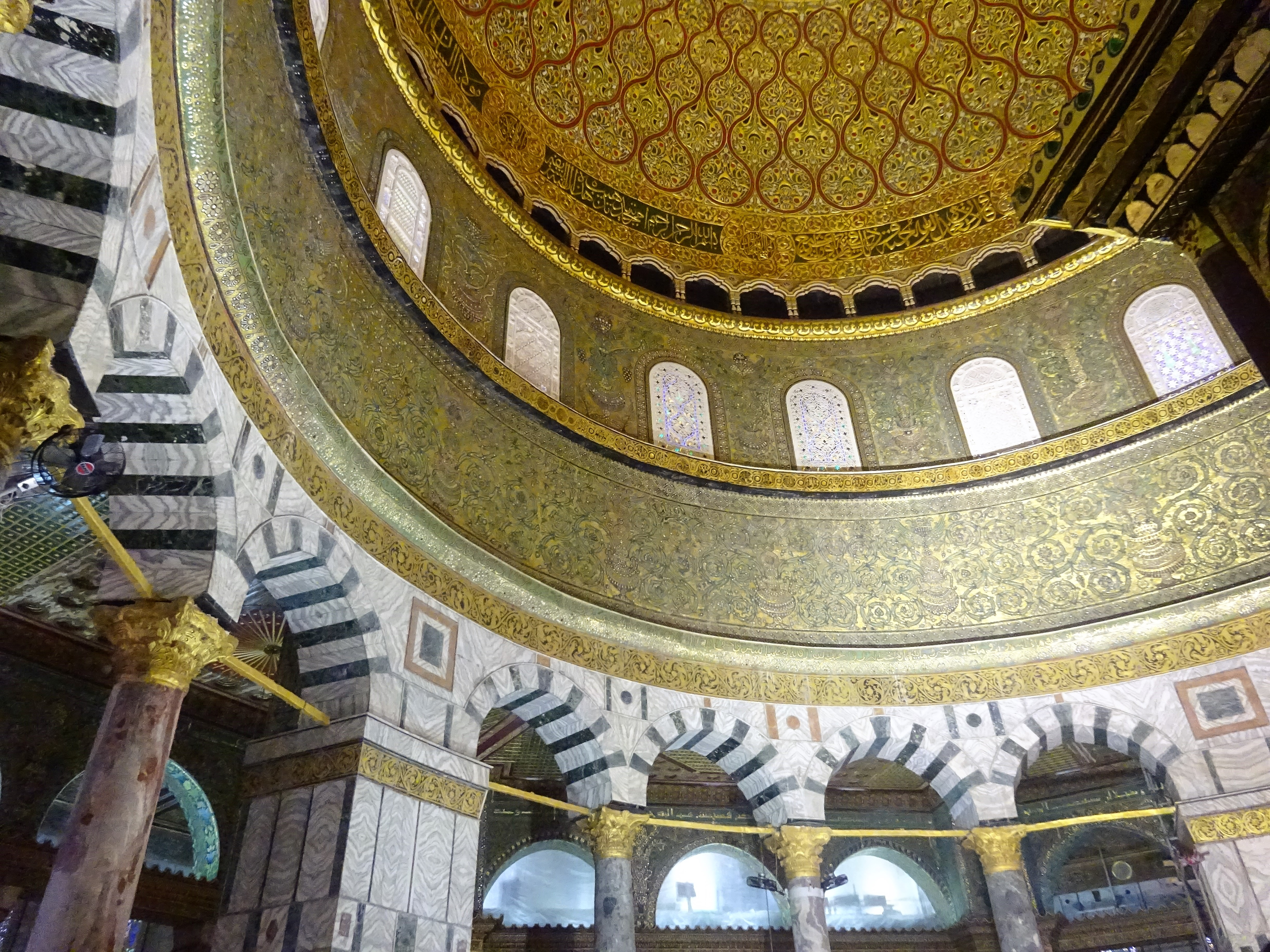 Dome of the Rock inside viewing upwards, January 2018